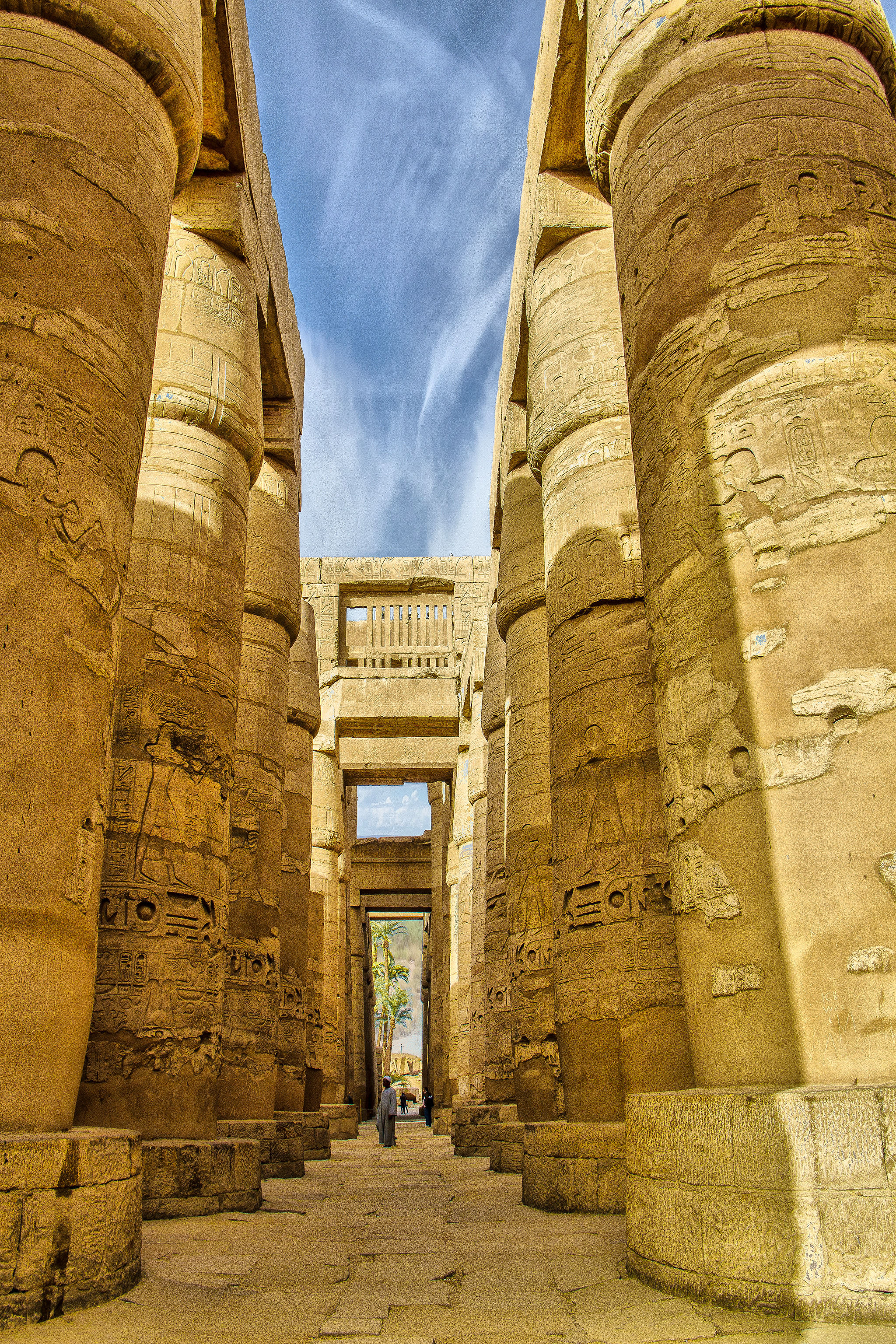 Karnak Temple of Luxor in Egypt signs distinctive, where he was the king of all kings of successive tries to make the most magnificent temple. For characterized by his predecessor to the temples of Karnak that turned into a full guide and variety show the evolution of the old and the distinctive architecture of Pharaonic Egyptian art. Karnak Temple: Aldrom or first court of the temple. Colored lithographs of the crank, painted in 1838 and published between the years 1846 and 1849. Karnak Temple and the Grand characterized by charming sound and light performances that are held every evening, which is a great way to discover the Karnak Temple. The distance between Luxor and Karnak is 3 kilometers, punctuated on the sides of the road a large number of small sphinxes or what is known as the path of rams. Karnak Temple is the largest house of worship gated on earth